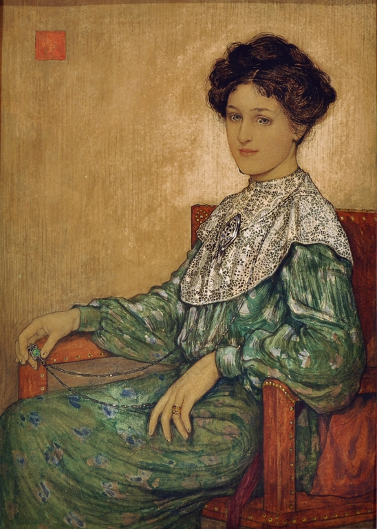 Katharine Maltwood (1905) watercolour by Nico Jungman This is a painting of Katharine Emma Maltwood by Nico Jungman that was donated to the Maltwood Art Museum and Gallery. Online inventory